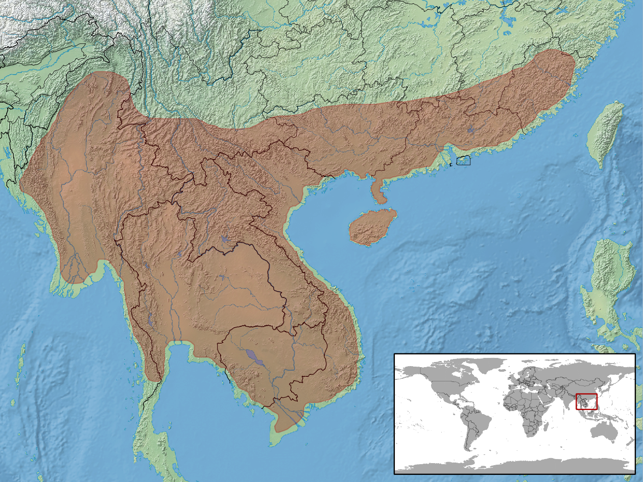 geographic distribution of Acanthosaura lepidogaster (Native: Cambodia; China (Fujian, Guangxi, Hainan, Yunnan); Lao People's Democratic Republic; Myanmar; Thailand; Viet Nam)